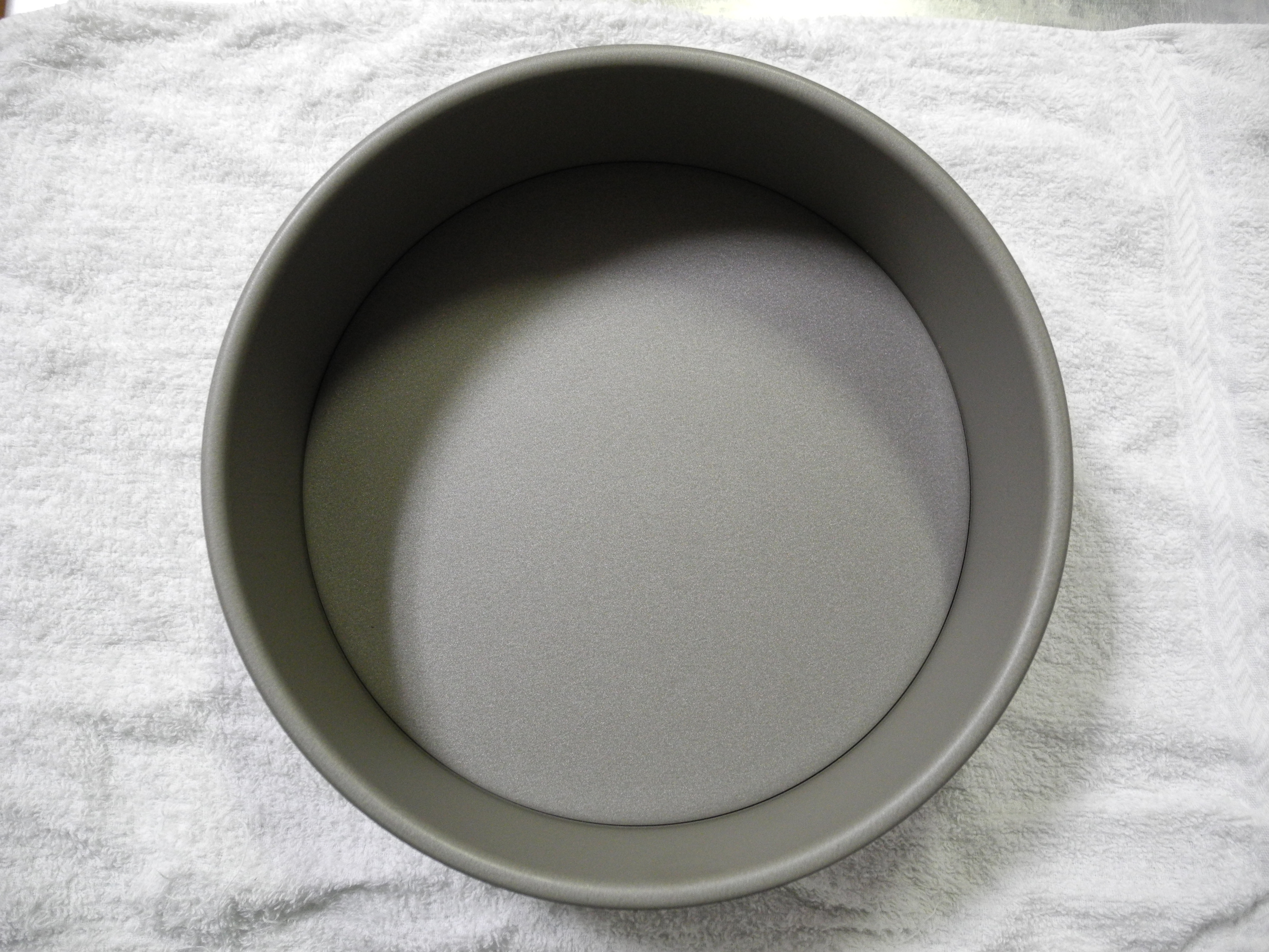 A grey circular cake tin, about 26 cm in diameter. The cake tin is resting on a white towel.